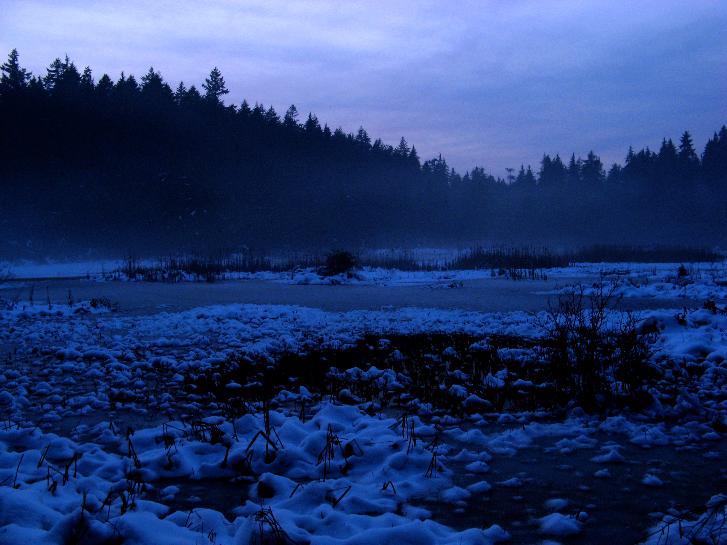 Girl in Wet Suit Statue and Seagull, Stanley Park, Vancouver, Canada